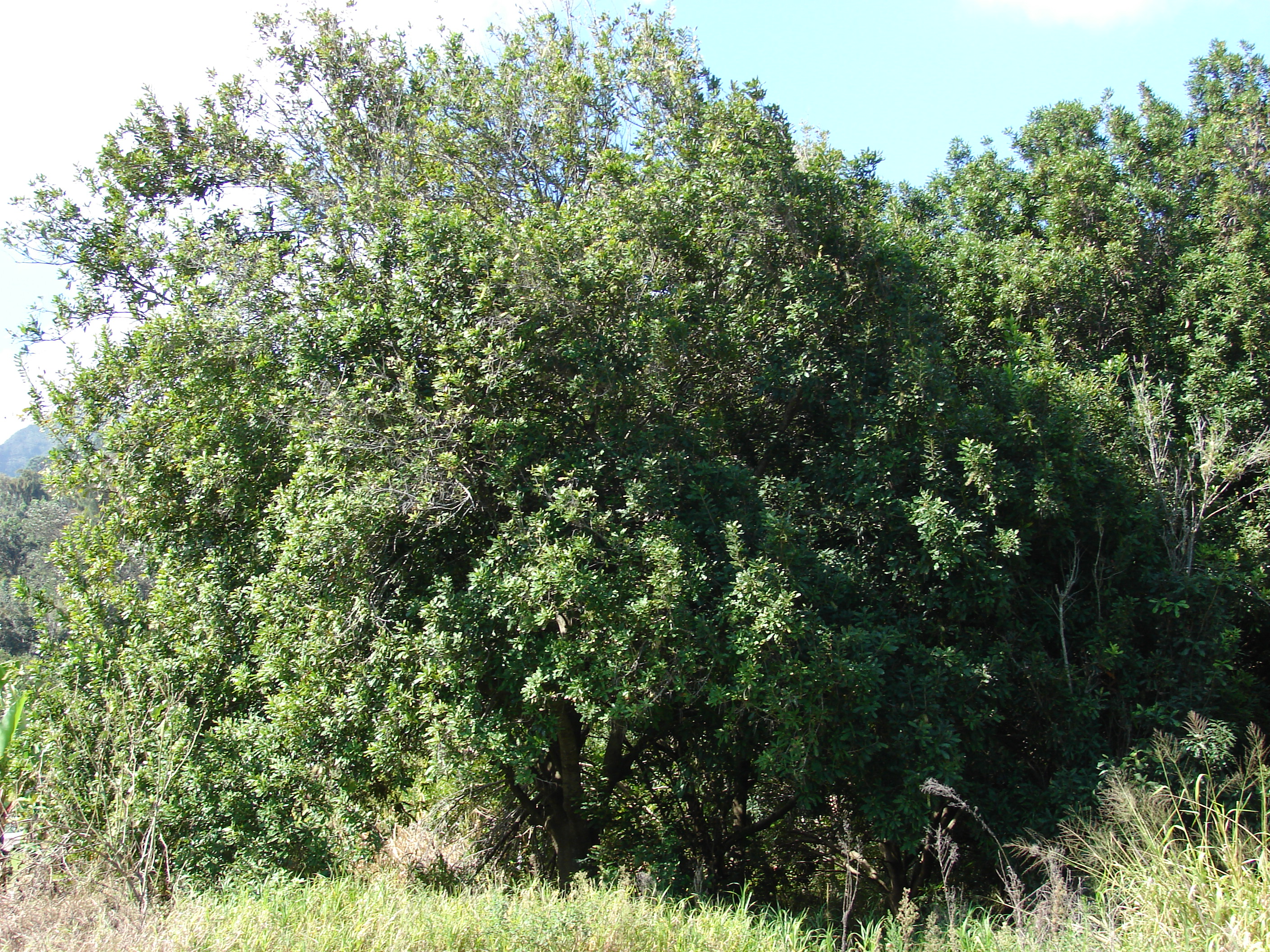 Macadamia integrifolia (habit). Location: Maui, Old macadamia nut orchards Waiehu